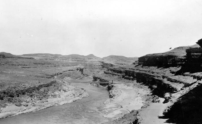 View looking down San Juan River from above Goodridge bridge. San Juan County, Utah.